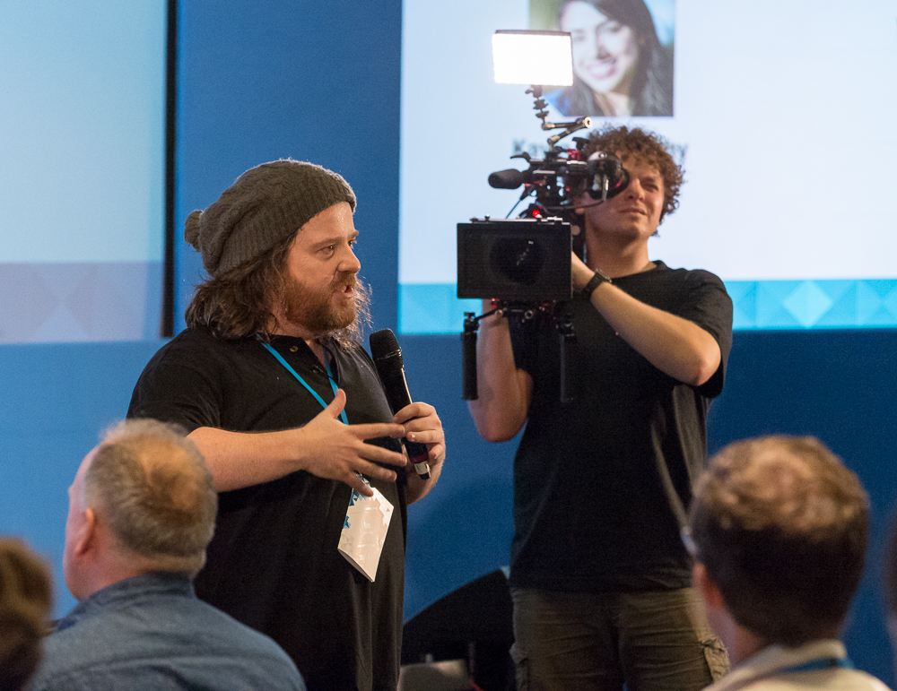 Ian Boldsworth giving the QED Con 2017 audience a brief introduction to the podcast while being filmed.